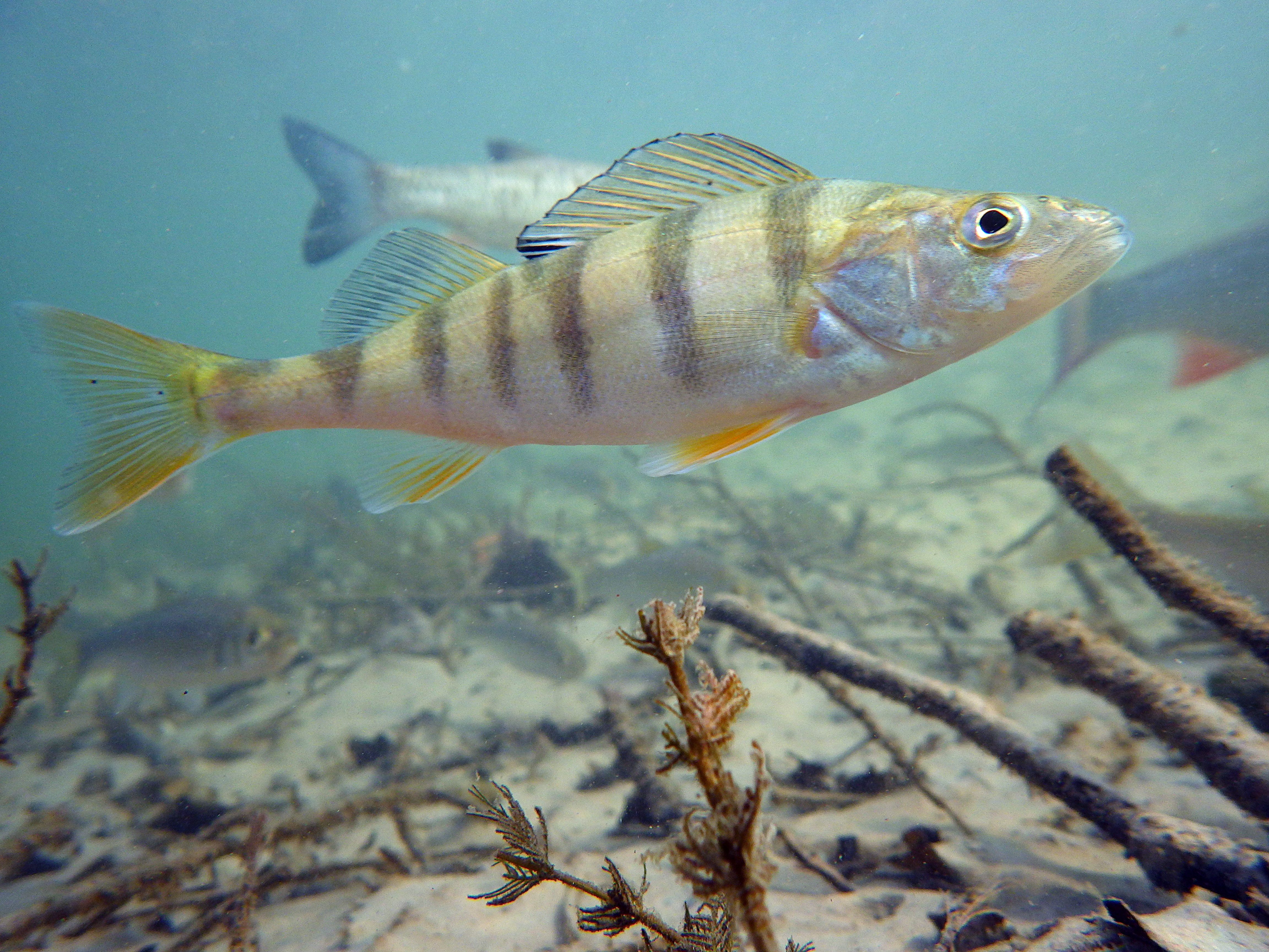 European perch